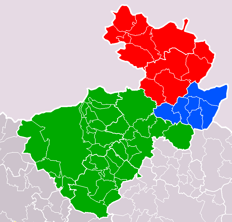 Administrative areas of municipalities with extended competence within Děčín District as of January 1, 2010: MEC Děčín MEC Rumburk MEC Varnsdorf